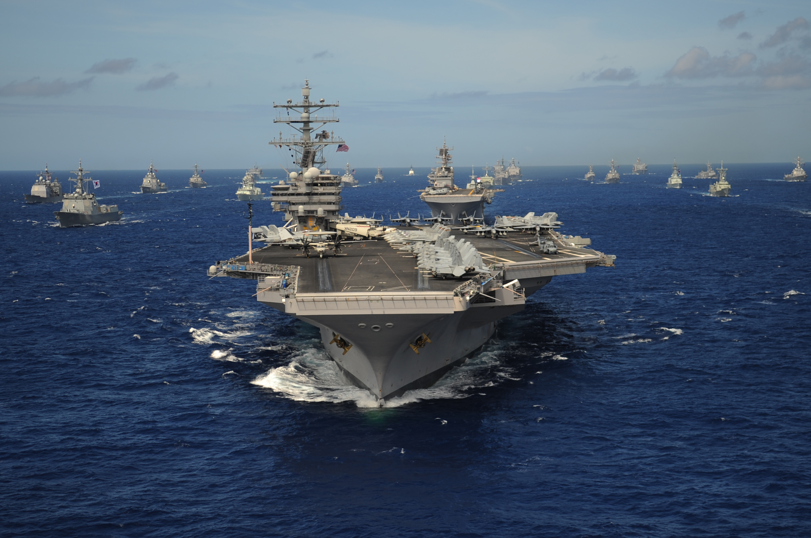 The Nimitz-class aircraft carrier USS Ronald Reagan (CVN 76) leads a mass formation of ships from Korea, Taiwan, Japan, Singapore, France, Canada, Australia and the United States through the Pacific Ocean July 24, 2010, during Rim of the Pacific (RIMPAC) 2010. RIMPAC is the world's largest international maritime exercise and is designed to increase mutual cooperation and enhance the tactical capabilities of participating nations in various aspects of maritime operations at sea. (DoD photo by Mass Communication Specialist 1st Class Scott Taylor, U.S. Navy/Released)